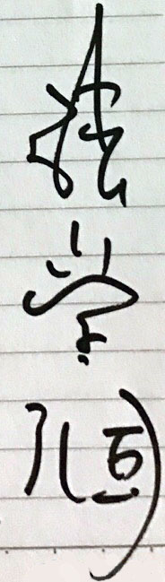 This is Nelson Cheung's signature.